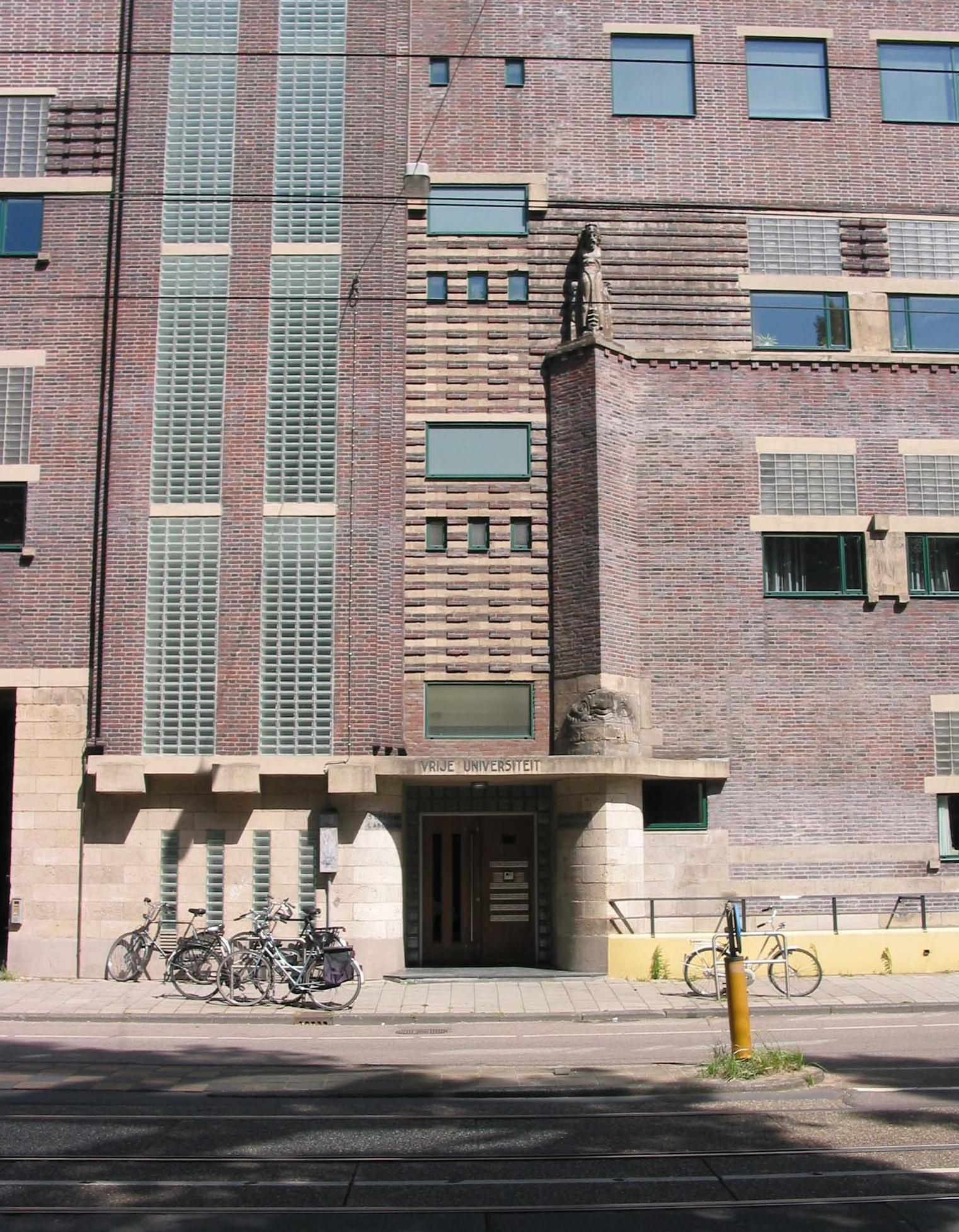 B.T. Boeyinga (architect), Th. van Reijn (sculptor). Former Vrije Universiteit Chemistry Laboratory, De Lairessestraat 176 (previously 174), Amsterdam. 1932-1933 (construction).